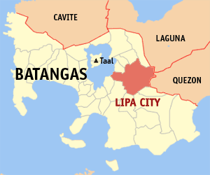 Map of Batangas showing the location of Lipa City